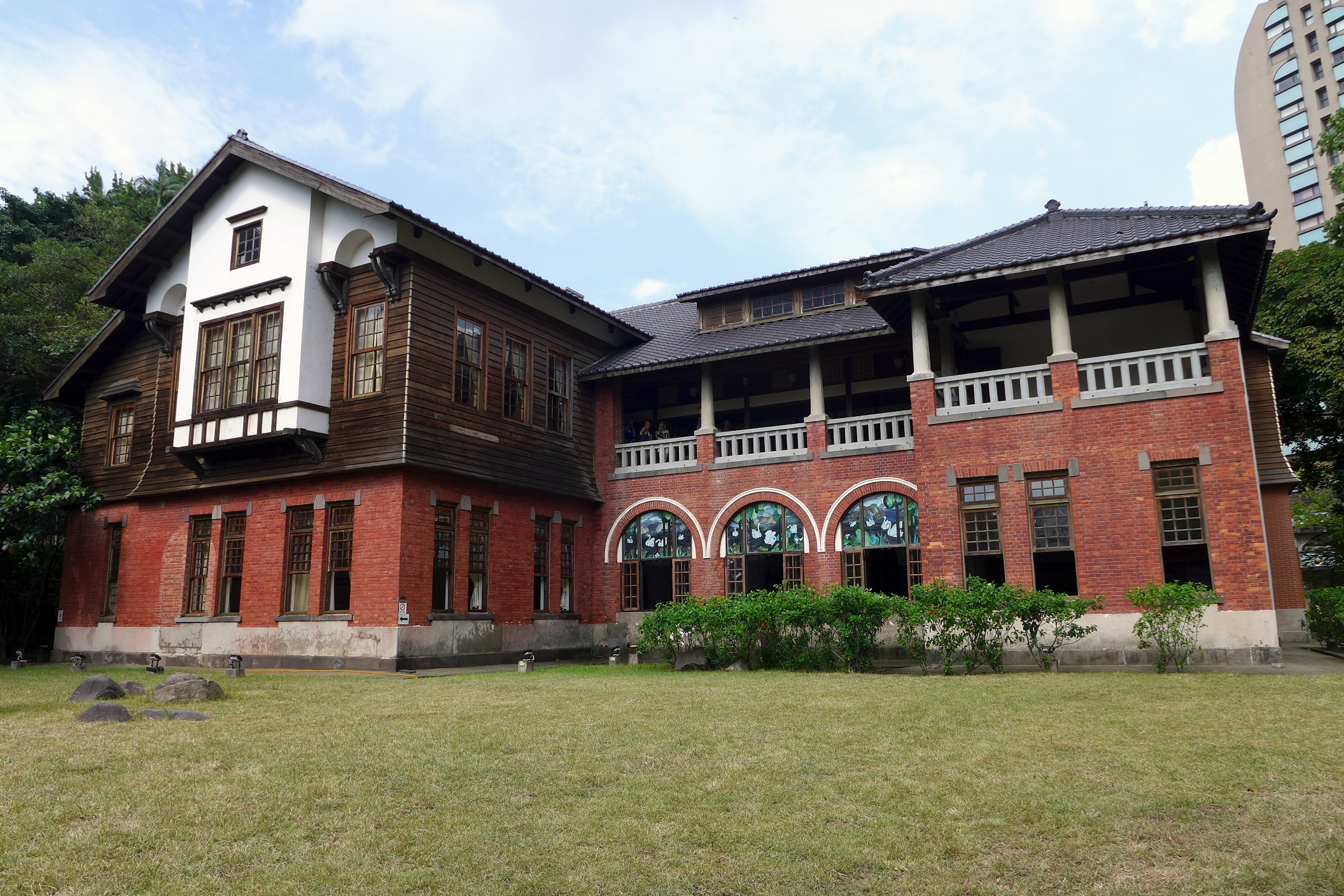 Beitou Hotspring Museum